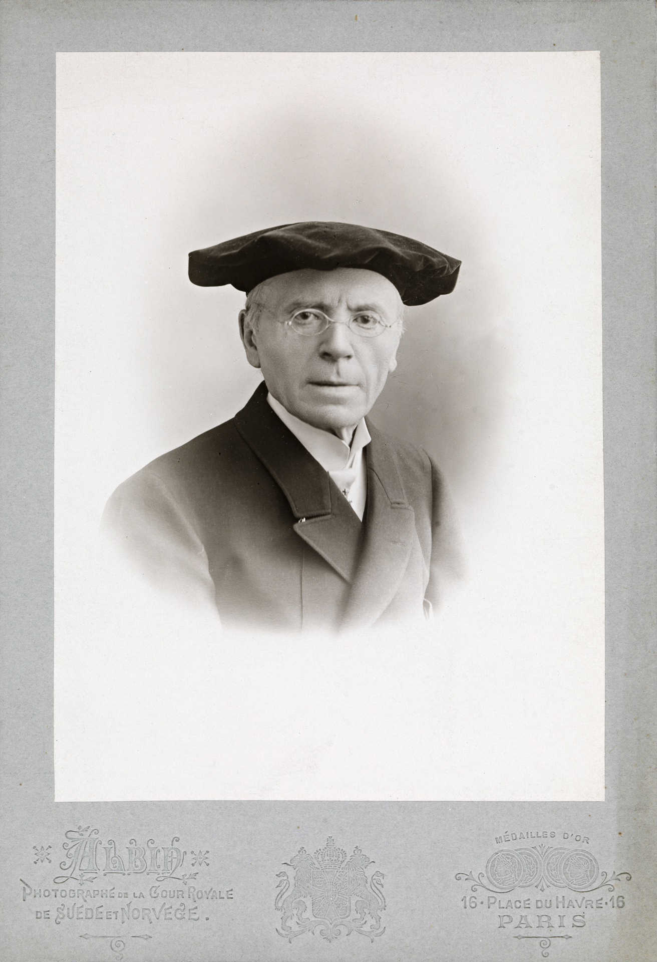 Tittel / Title: Portrett av Jonas Lie Motiv / Motif: Kabinettkort. Dato / Date: ukjent / unknown Fotograf / Photographer: Albin (Paris) Sted / Place: Frankrike, Paris Eier / Owner Institution: Nasjonalbiblioteket / National Library of Norway Lenke / Link: Bildesignatur / Image Number: blds_04056